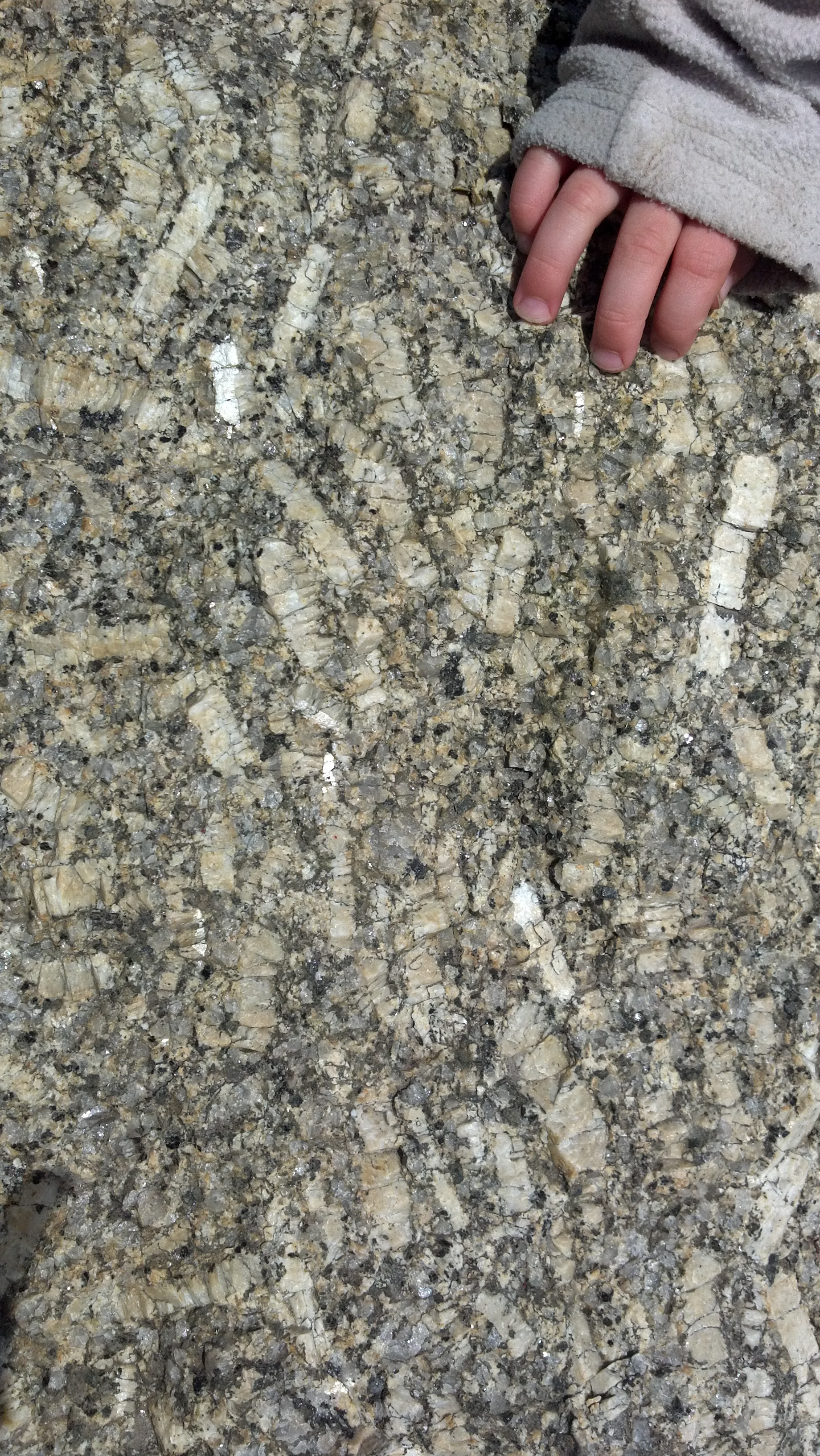 Land's End granite at Porthcurno beach in Cornwall, England.